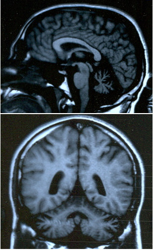 Brain MRI images of the younger patient (II-14) at age 25 years old, showing cerebellar atrophy